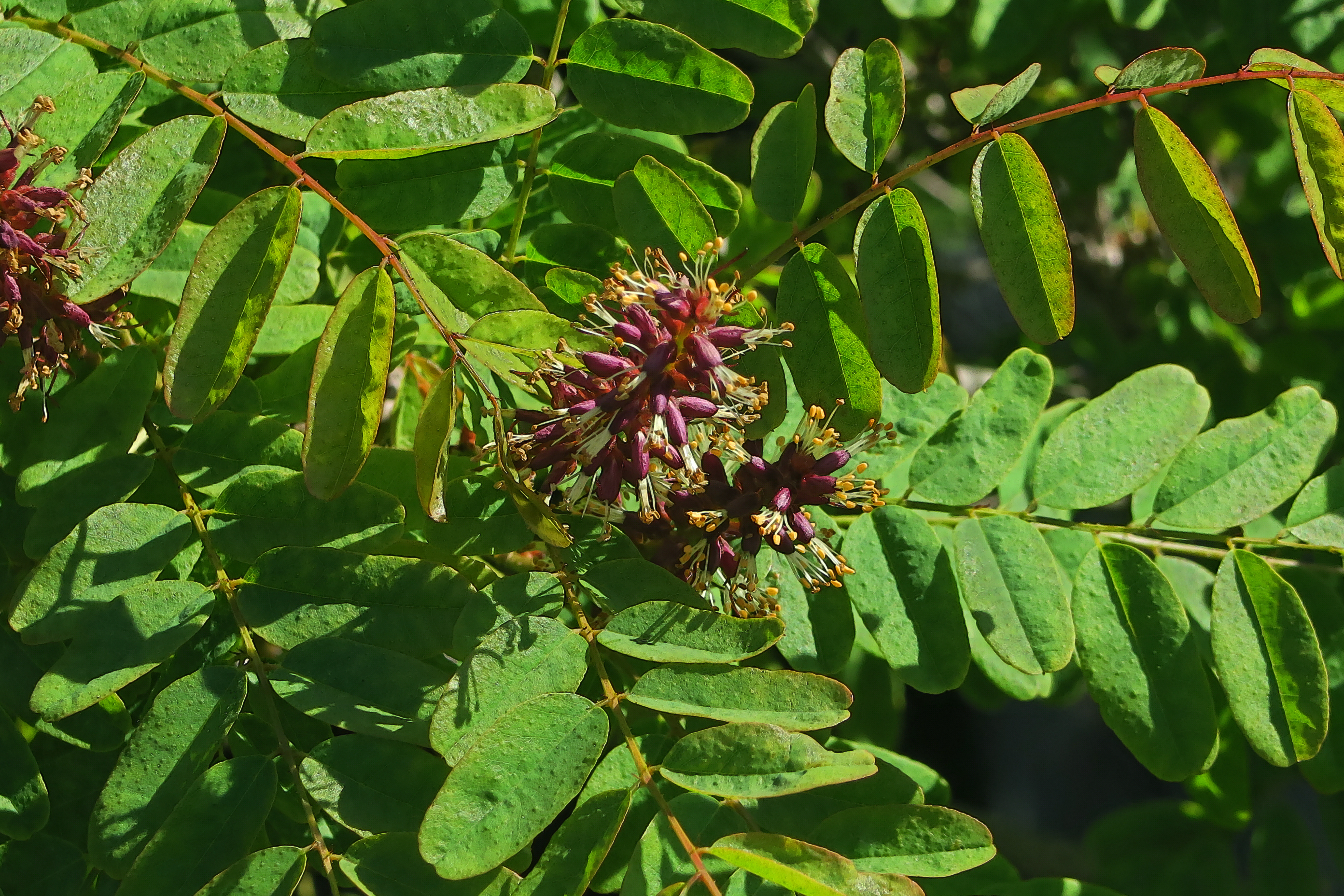 Amorpha californica—California false indigo. Grows in the Coast Ranges of Napa, Sonoma, and Marin Counties; then southward from Monterey County to the Transverse Ranges of Southern California. Found in Arizona and Baja California as well. There also are disjunct populations in the Northern Sierra Nevada. The species is the larval food source for the endemic California dogface butterfly (Zerene eurydice), the state butterfly of California. Photographed at Regional Parks Botanic Garden located in Tilden Regional Park near Berkeley, CA.